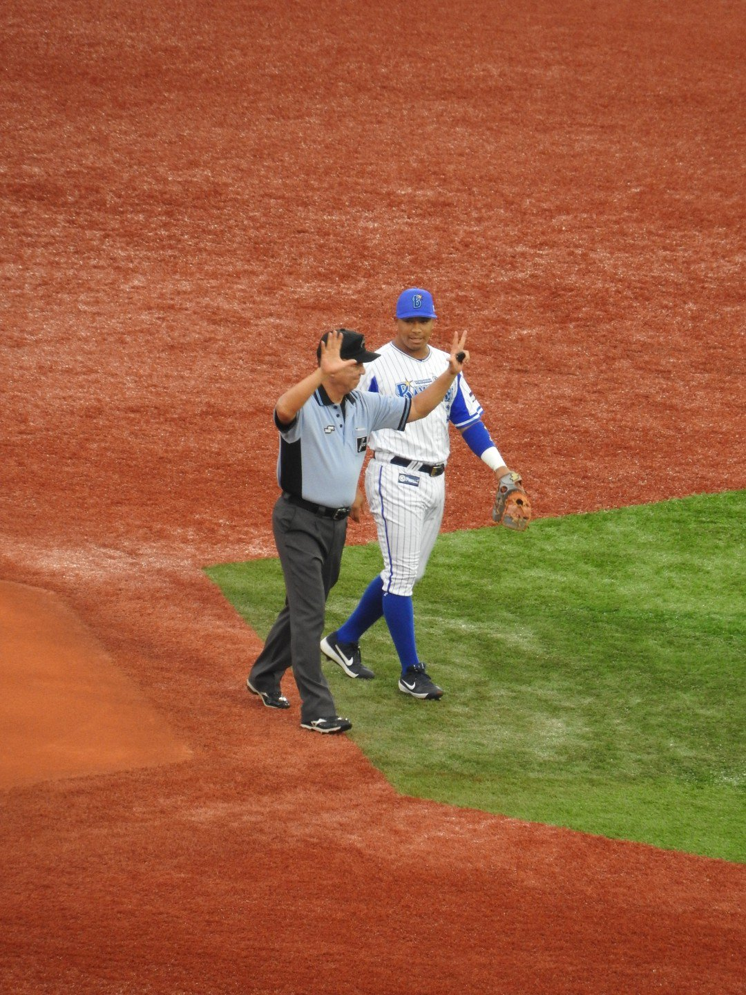 2019年7月16日横浜スタジアムにて